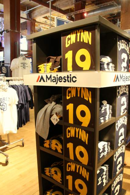 Tony Gwynn No. 19 shirts selling at Padres Store in Petco Park